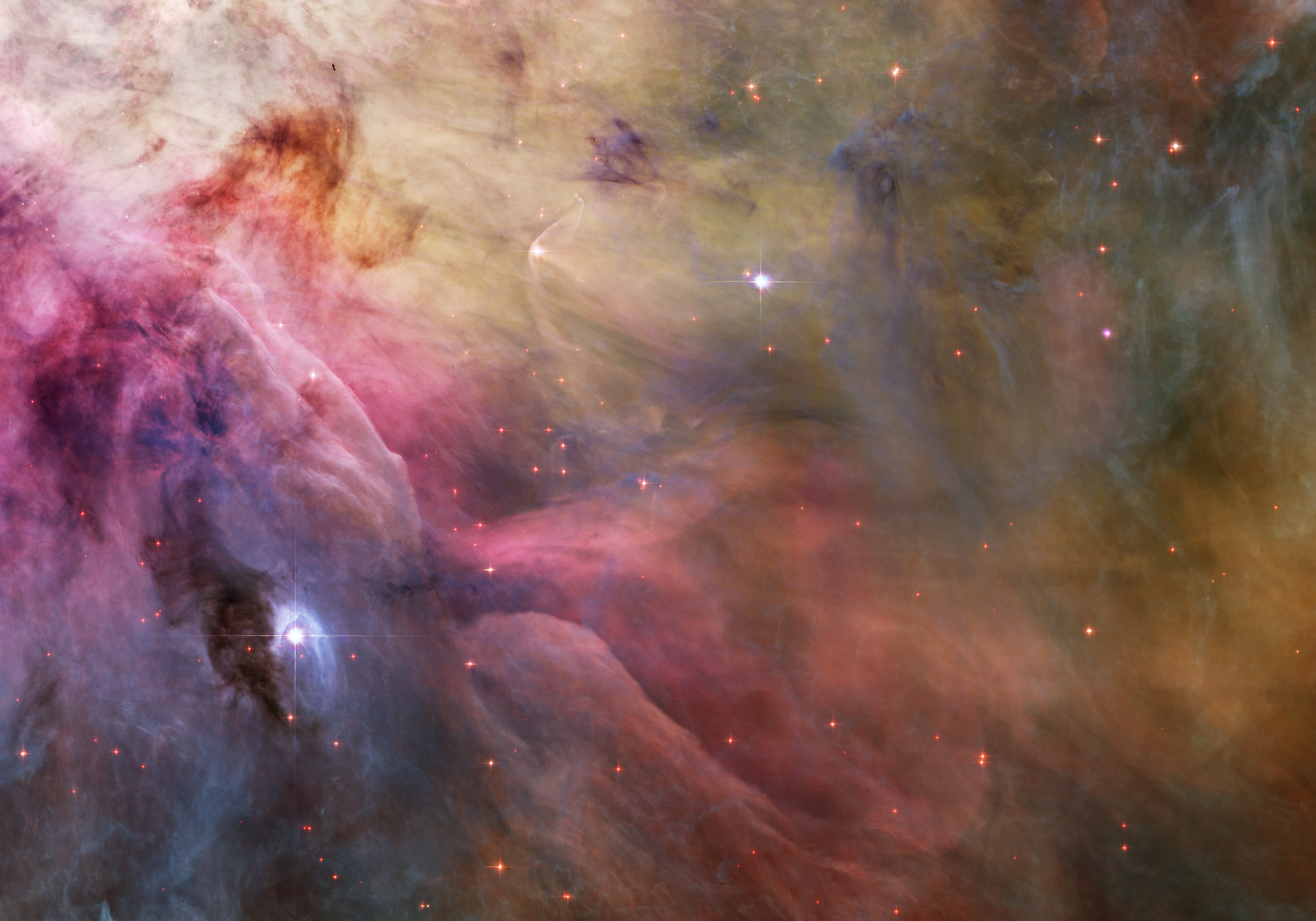 Panoramic view of part of Orion Nebula (M42, Messier 42, NGC 1976) by Hubble Space Telescope